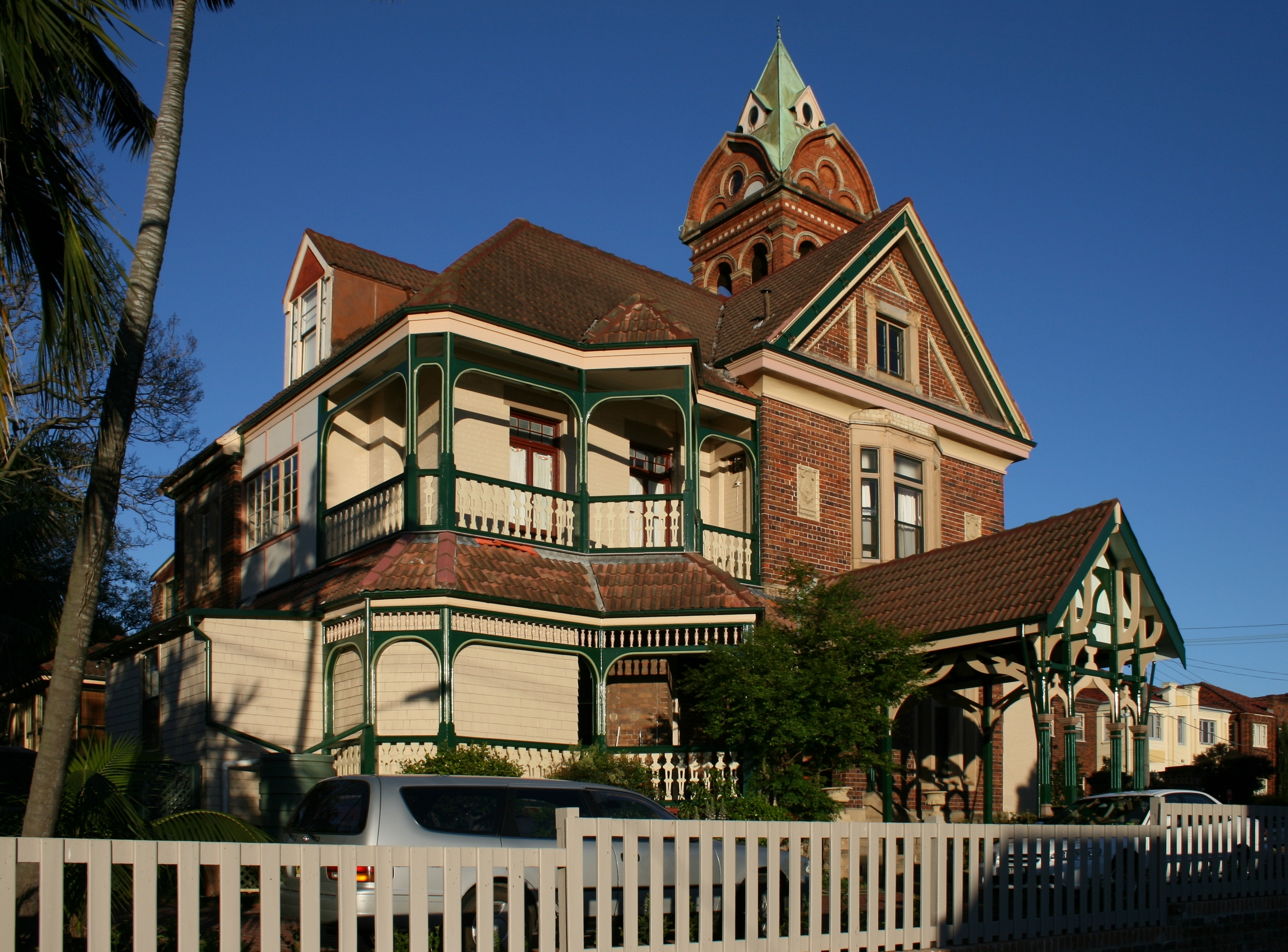 Amesbury, a historic building in Ashfield, New South Wales, Australia.